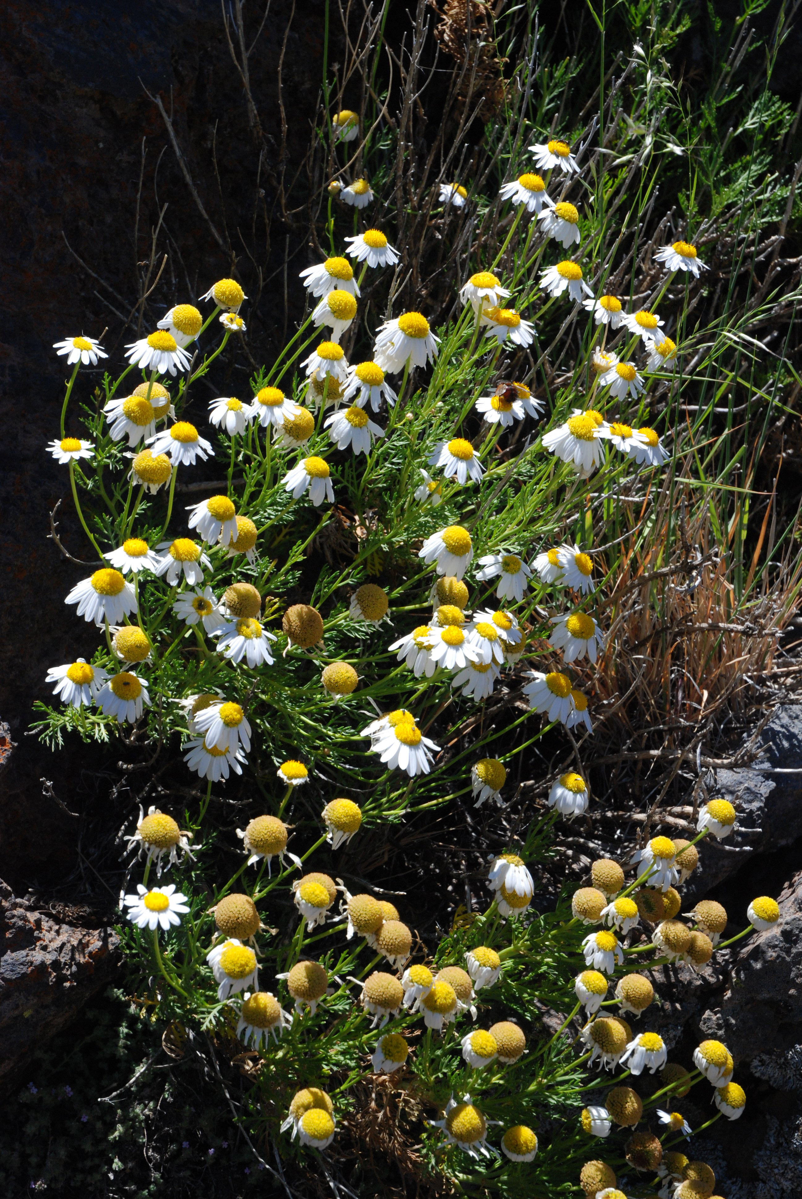 Argyranthemum adauctum subsp. palmensis, Near Fuente Nueava ~2300 m, La Palma, Spain